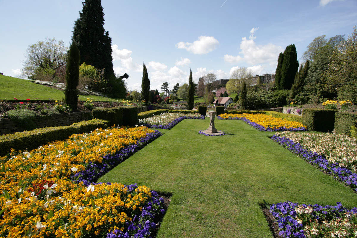 Calverley Park gardens, Tunbridge Wells, taken on May 2, 2008